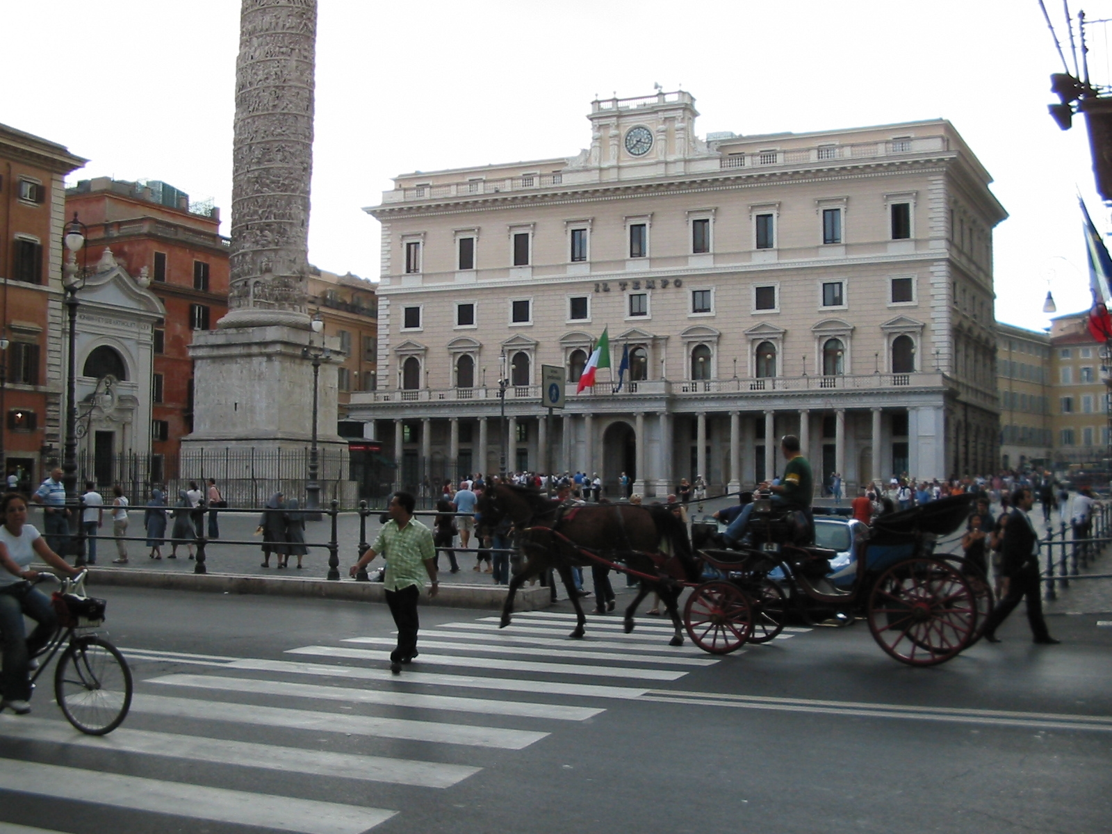 This is a picture of Piazza Colonna, a square in the center of Rome, Italy. I took it by myself on the 25th September 2005.